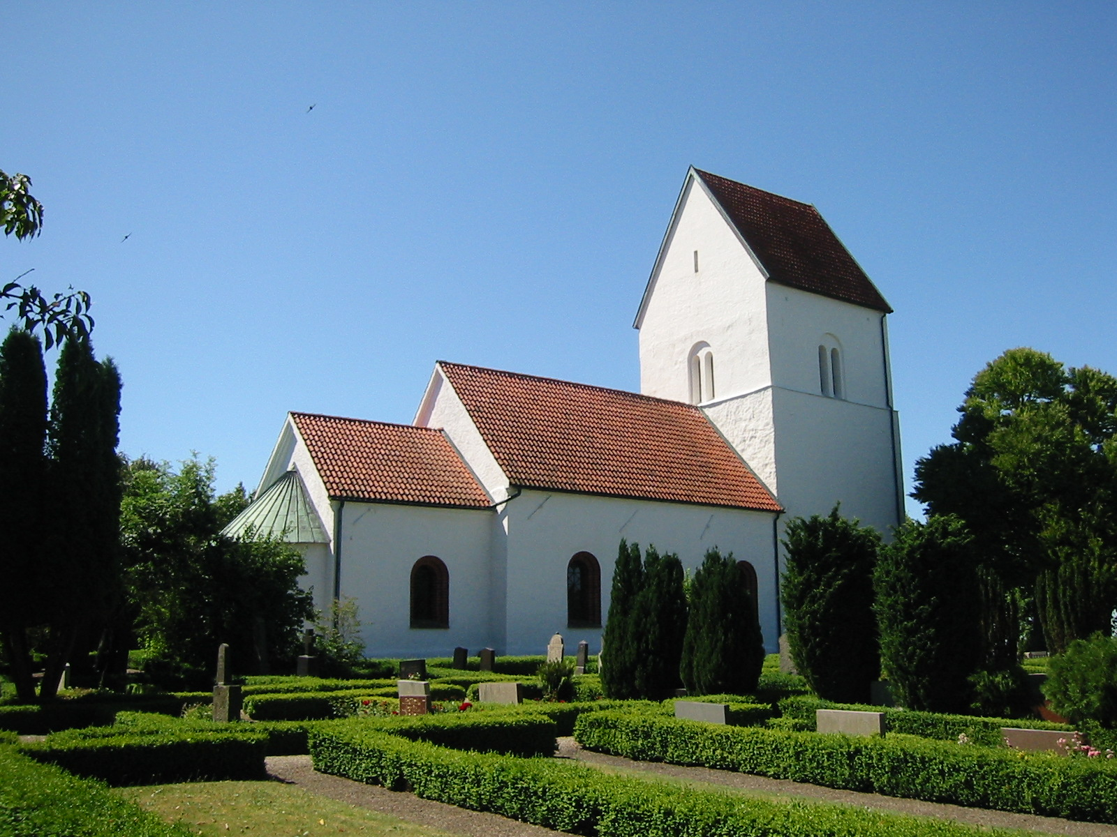 Lilla Harrie kyrka.